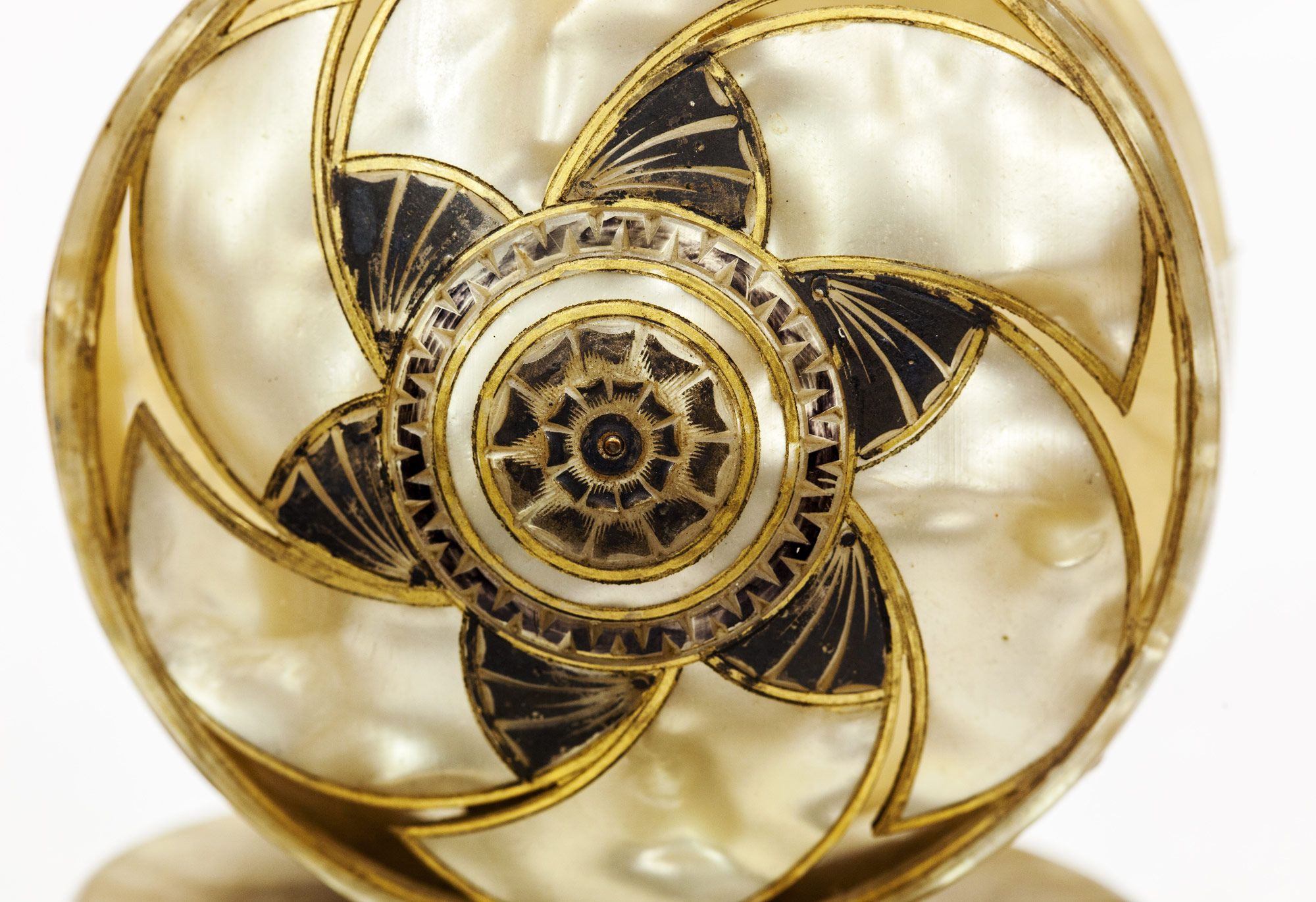 Loudspeaker with rich pearlescent decoration, from the early 20th century. Museum für Kommunikation, Frankfurt, Germany. Photo by Maximilian Schönherr with help from Lioba Nägele.